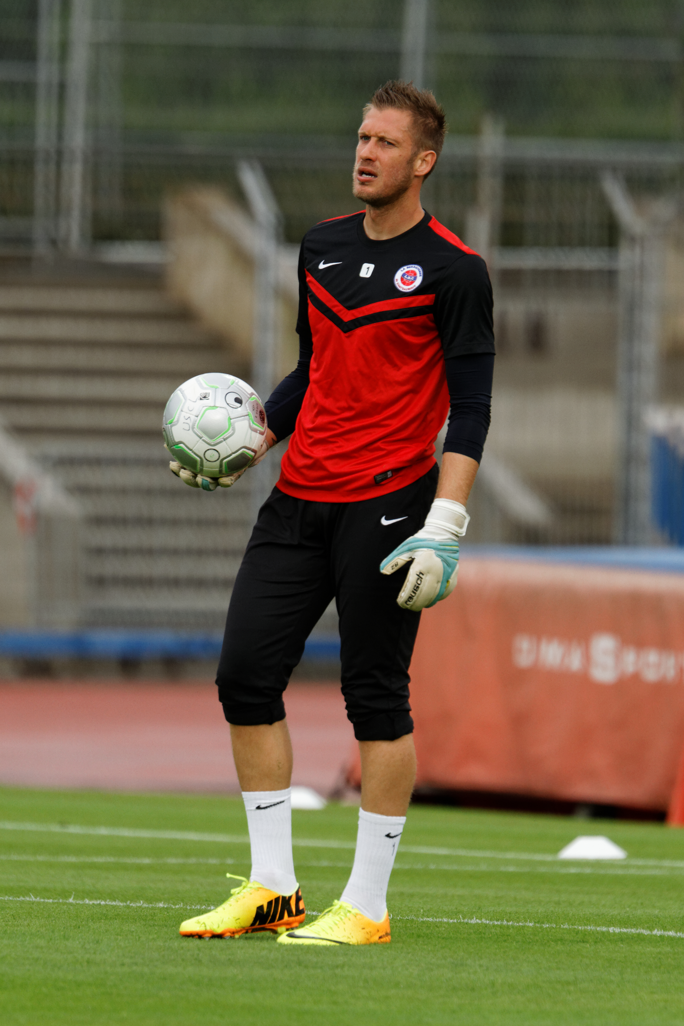 Créteil vs Châteauroux, 8th August 2014.